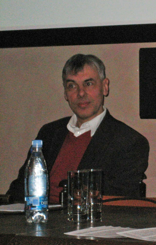 Ivar Leimus (born 1953) is Estonian historian and translator.